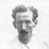 Robert Hawkes, of Luton Town and England. Cropped from a picture of the English amateur national team, winners of the football tournament at the 1908 Summer Olympics in London. This work is in the public domain in its country of origin and other countries and areas where the copyright term is the author's life plus 70 years or less. You must also include a United States public domain tag to indicate why this work is in the public domain in the United States. Note that a few countries have copyright terms longer than 70 years: Mexico has 100 years, Jamaica has 95 years, Colombia has 80 years, and Guatemala and Samoa have 75 years. This image may not be in the public domain in these countries, which moreover do not implement the rule of the shorter term. Côte d'Ivoire has a general copyright term of 99 years and Honduras has 75 years, but they do implement the rule of the shorter term. Copyright may extend on works created by French who died for France in World War II (more information), Russians who served in the Eastern Front of World War II (known as the Great Patriotic War in Russia) and posthumously rehabilitated victims of Soviet repressions (more information). This file has been identified as being free of known restrictions under copyright law, including all related and neighboring rights.